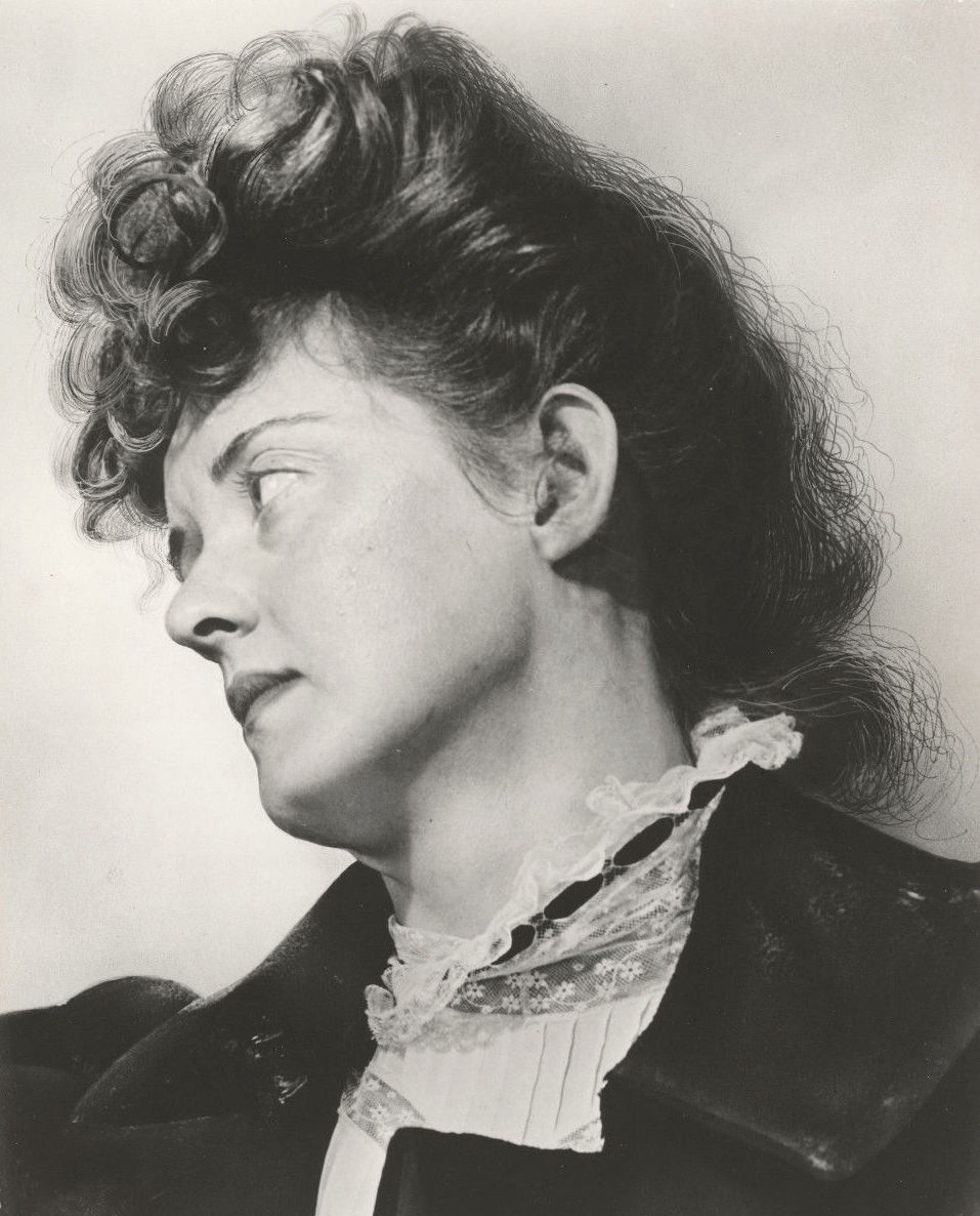 Promotional photo of Bette Davis for The Sisters